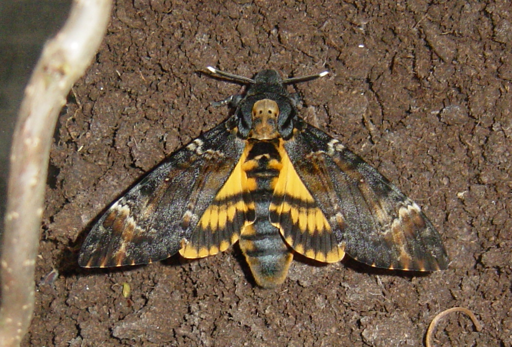 Acherontia atropos (L., 1758) This Death's-head Hawk-moth emerged from its pupa at two minutes to midnight on Christmas day 2006. This photo was taken at around 2.30 pm on the 27th December. Source - j9dw